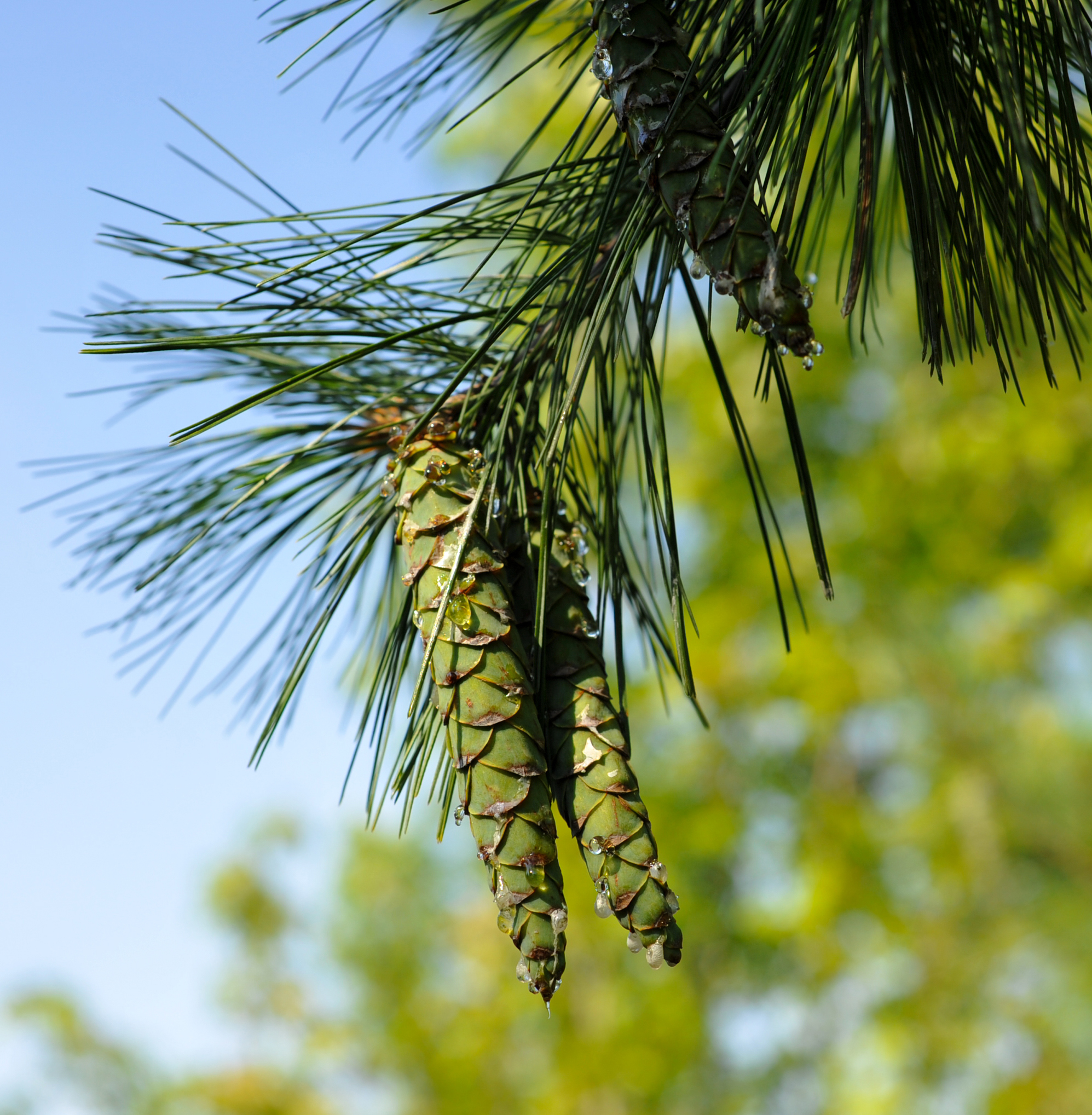 Pinus strobus cones. Bethesda, Maryland, USA.